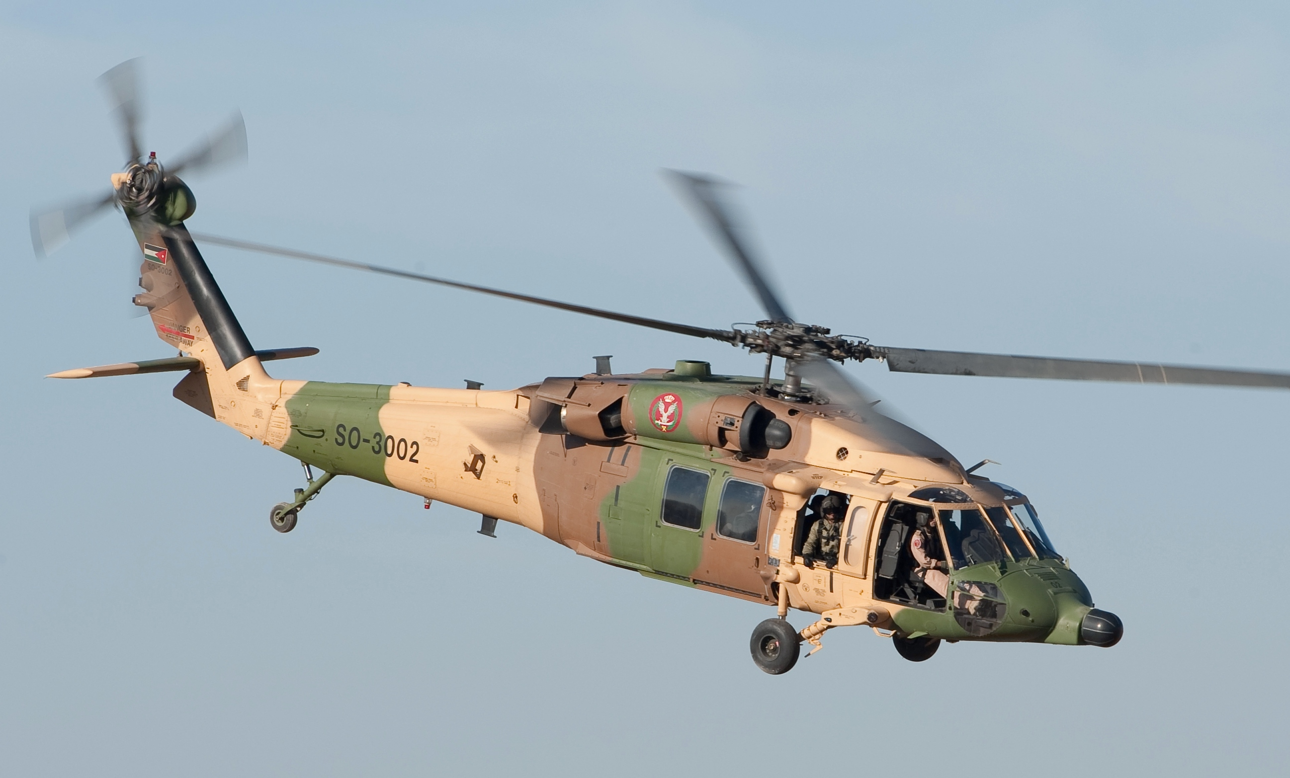 Cropped version of this image